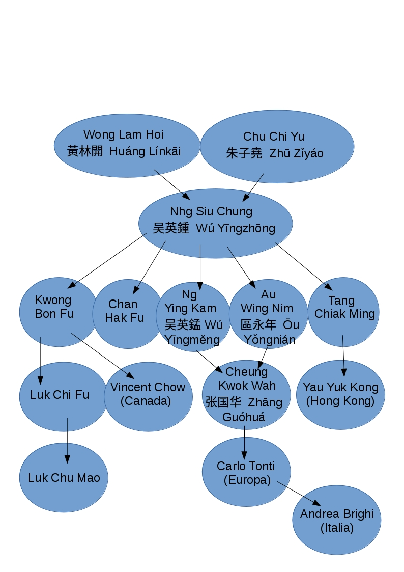 White Crane System lineage